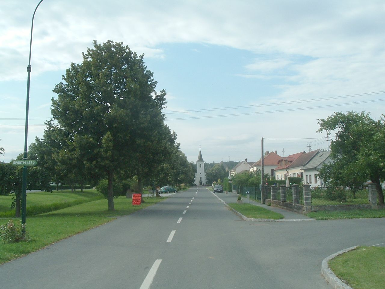 Zuberbach (Szabar), Burgenland